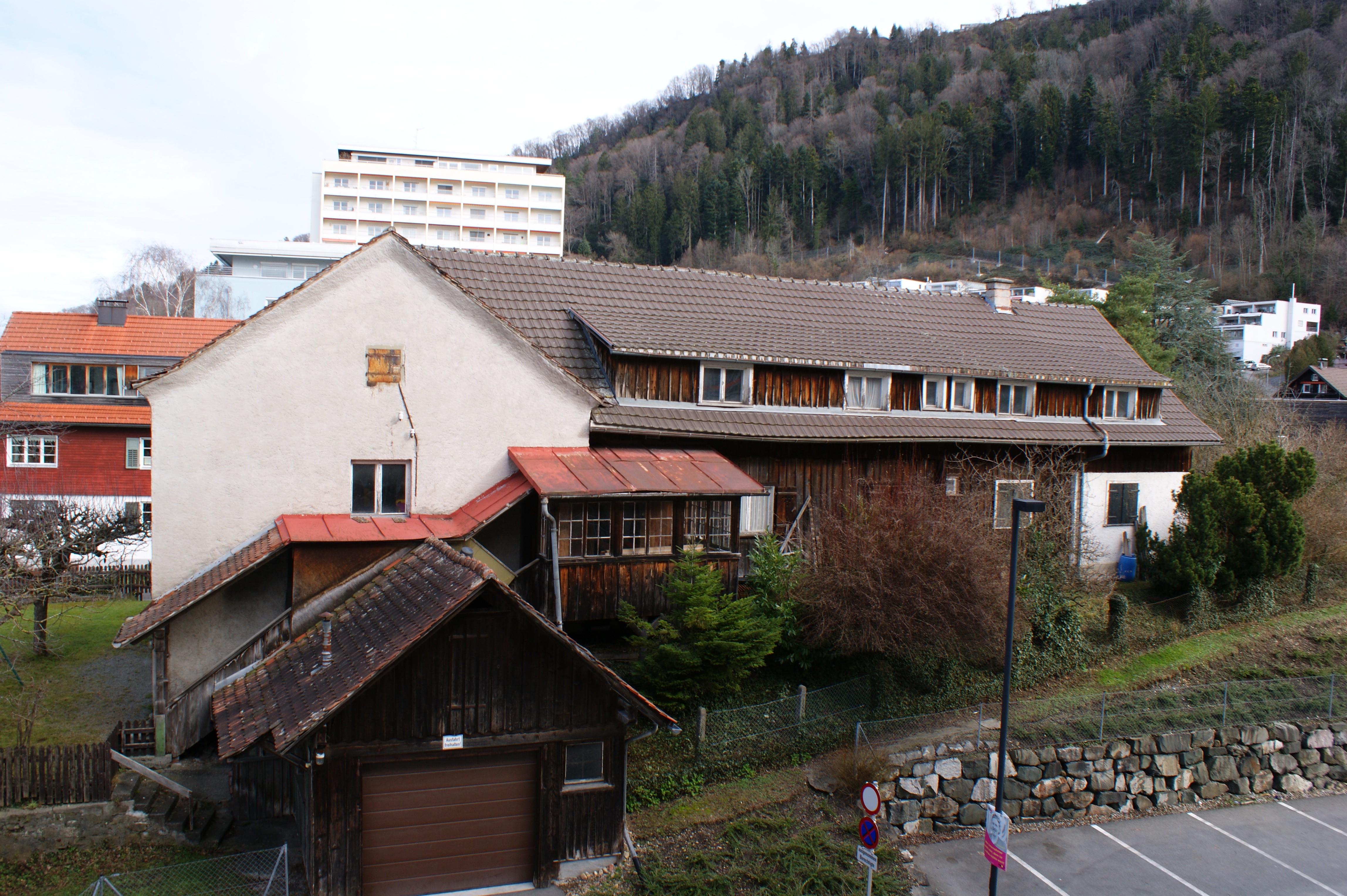 "New Schanze" in Lochau, Vorarlberg Austria. Part of a fortification, which was built in 1642 as the third barrier in the context of the Thirty Years' War against the advancing Swedish troops under General Carl Gustaf Wrangel. The building is a listed building. The Klausmühlebach, which was part of the fortification, flows next to the building.